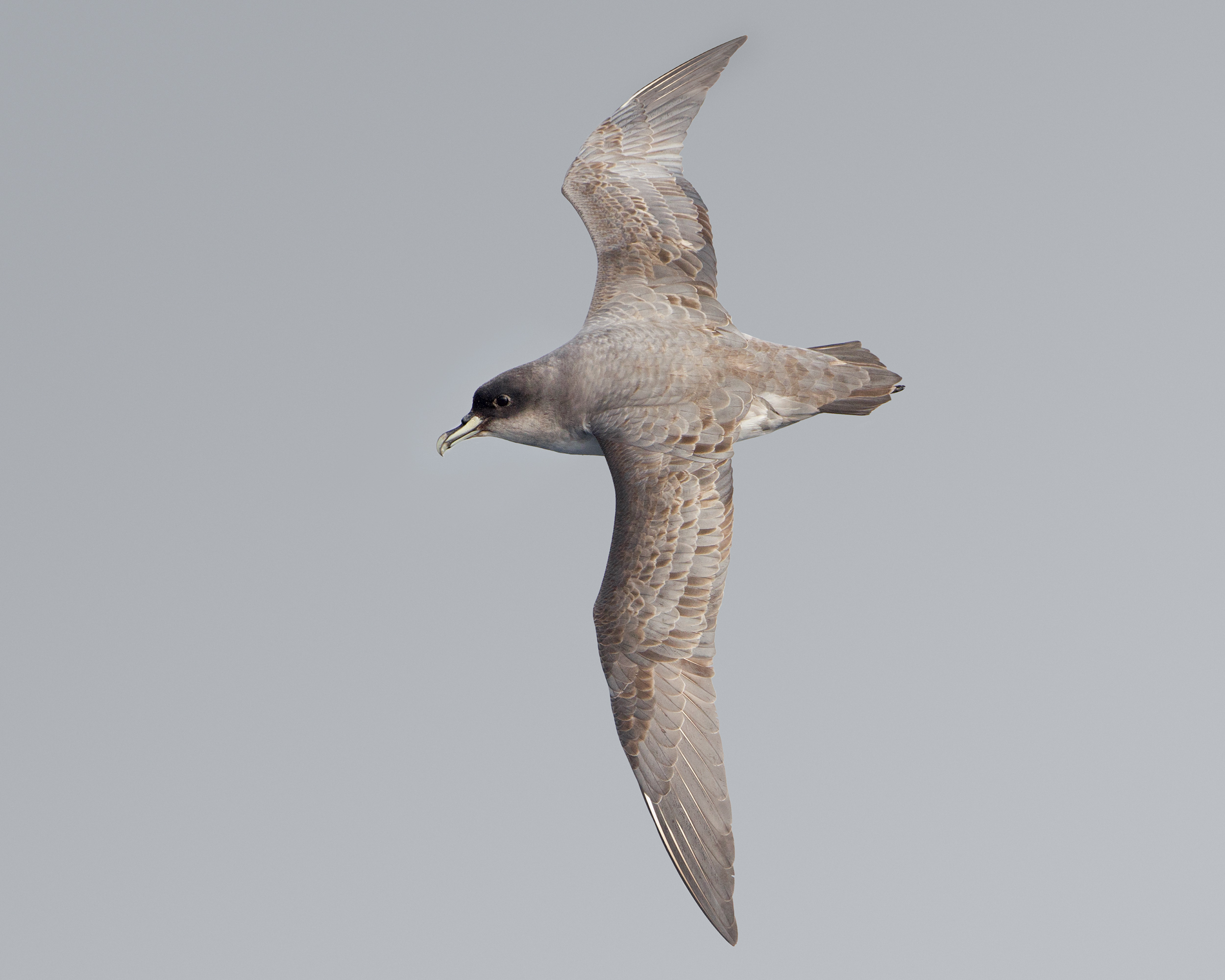 Grey Petrel (Procellaria cinerea) in flight, East of the Tasman Peninsula, Tasmania, Australia